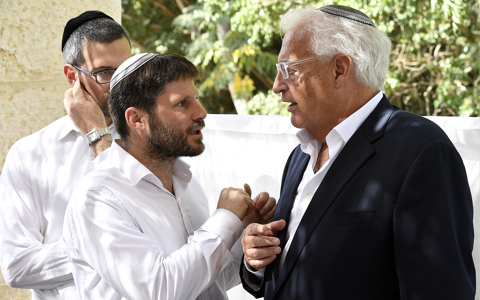 Ambassador David Friedman visit to Hesder Yeshiva of Sderot, October 2017.